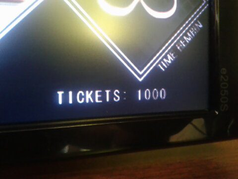 The main credit visualized in a part of the screen.